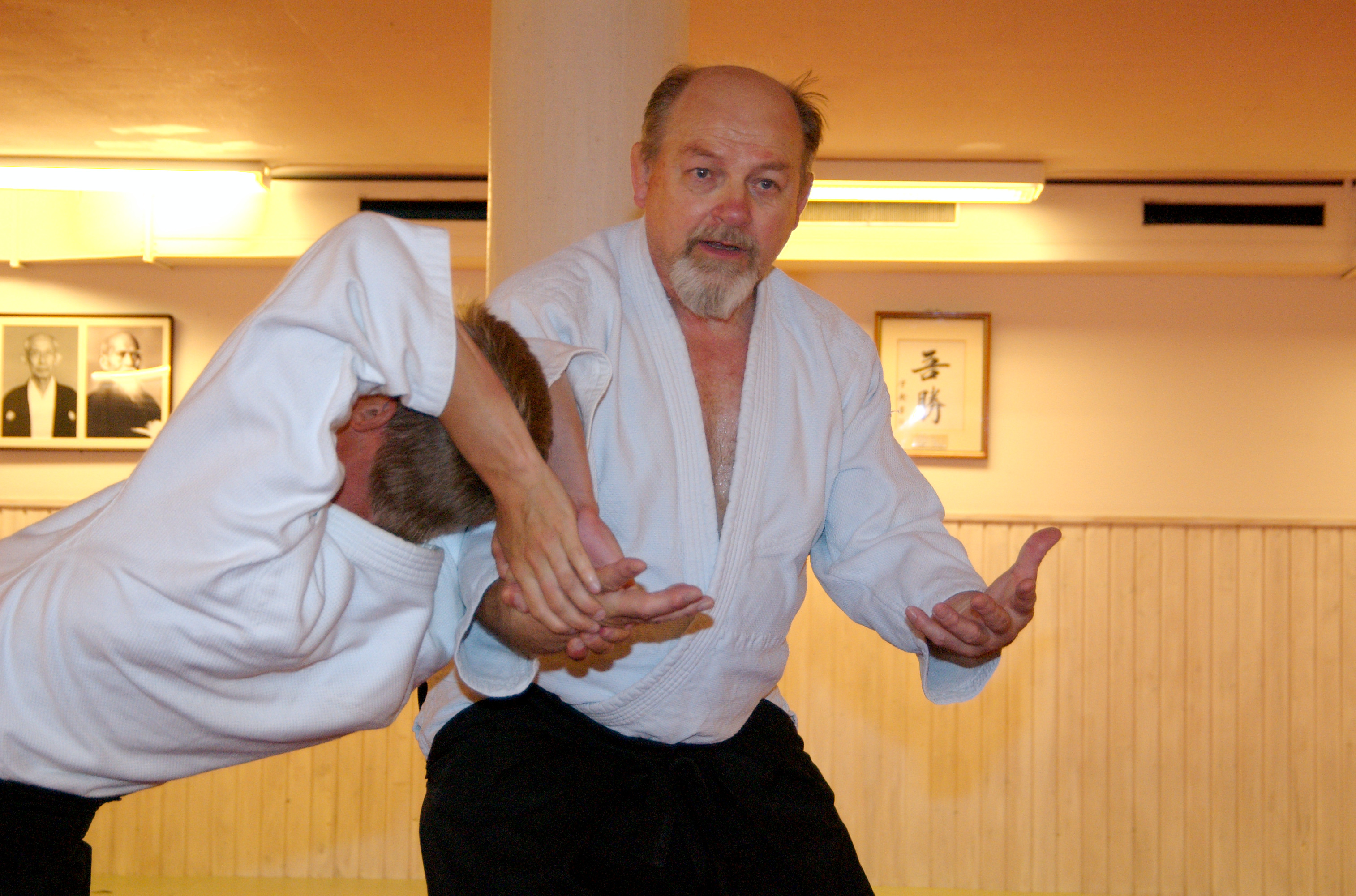 Jan Hermansson, 7 dan Aikido, instructing at Iyasaka Aikido